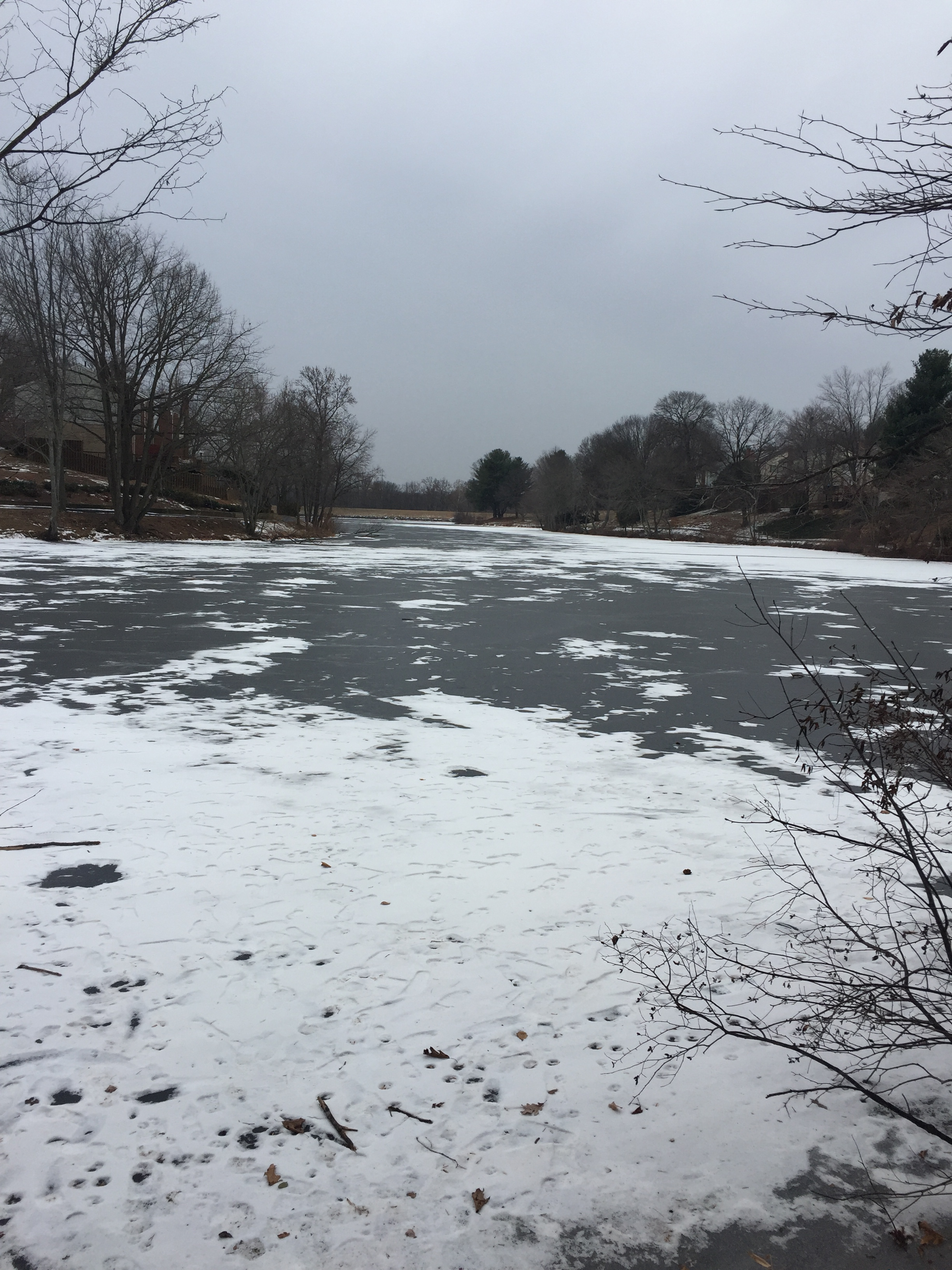 Lake Braddock frozen in the winter